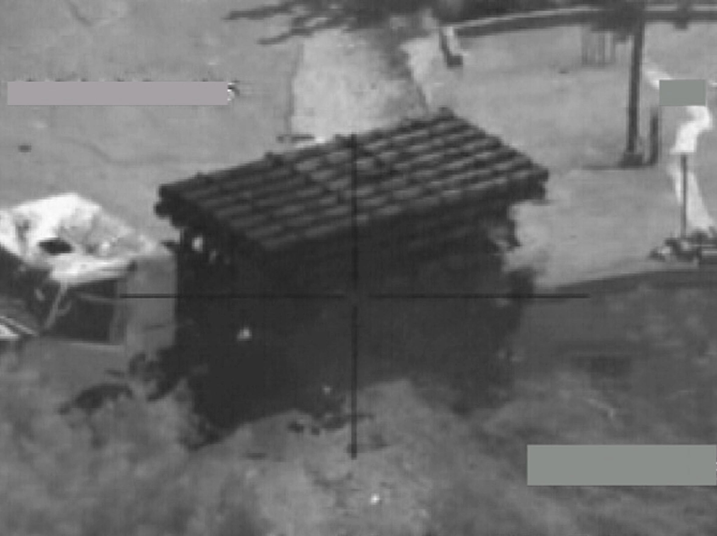 July 23, 2006 The IAF attacks Katyusha rocket launchers that were to be used against Israel.